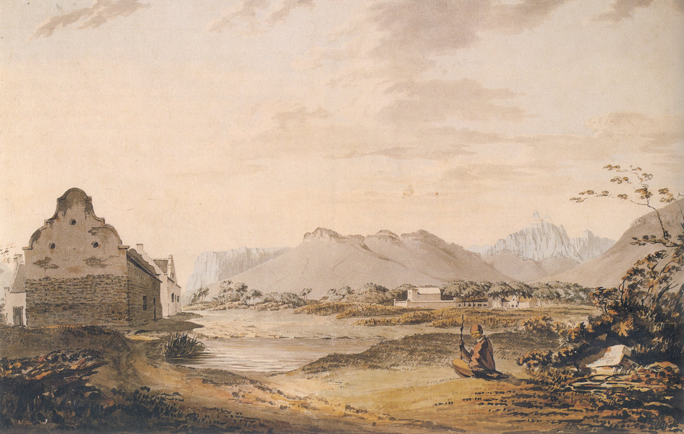 Stellenbosh, South Africa, in 1779.